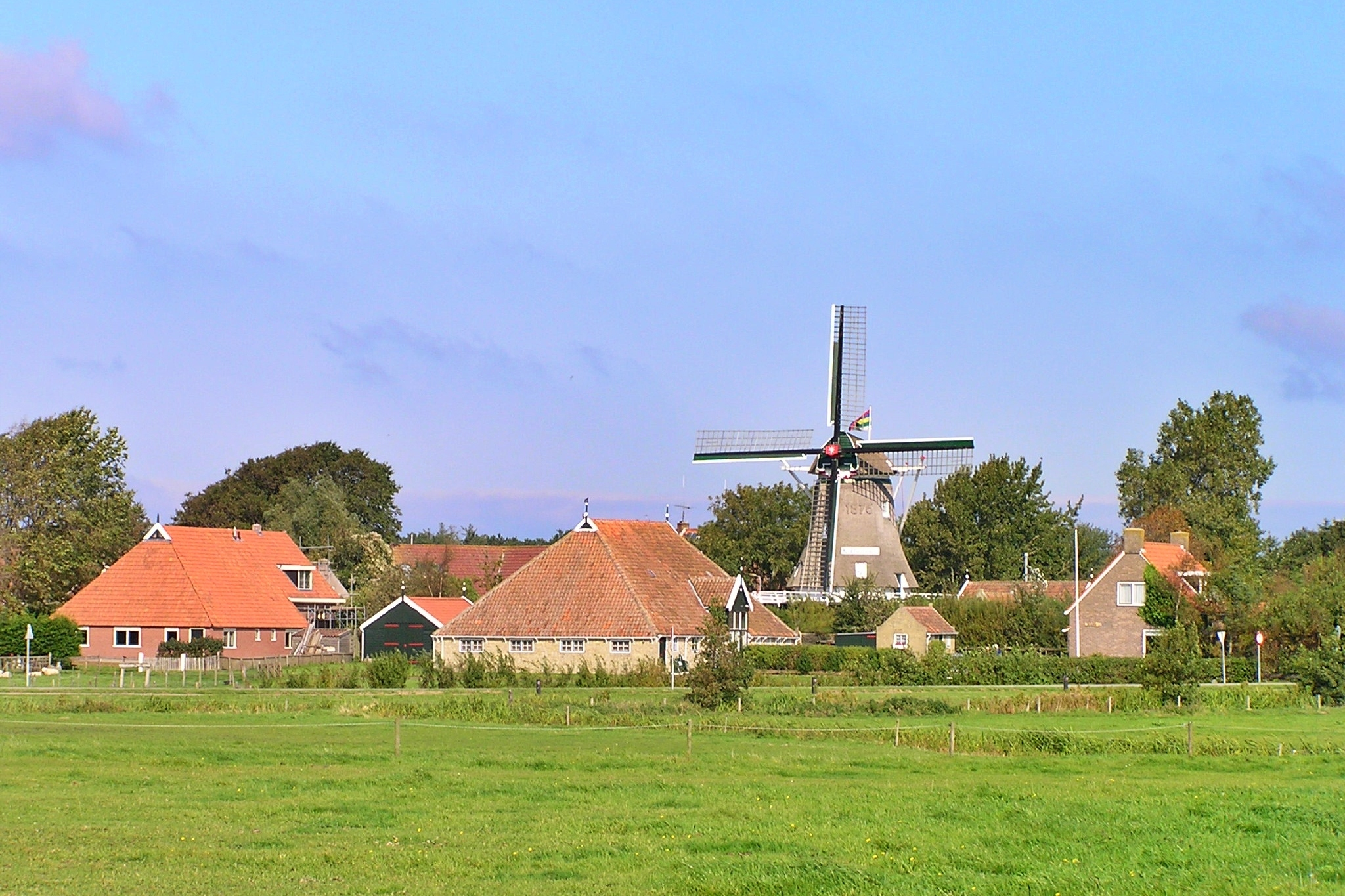 View of Formerum, Terschelling, the Netherlands.